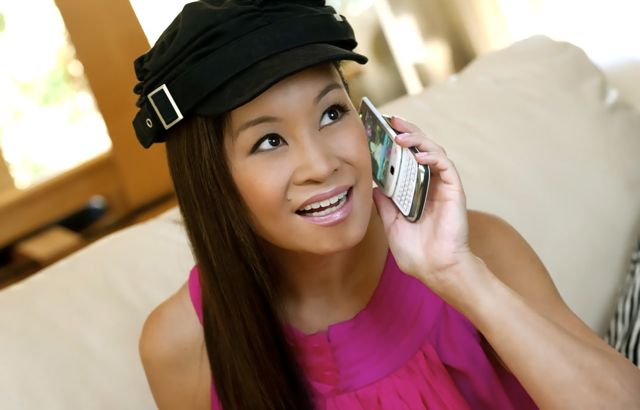 TV Presenter Jen Su with her BlackBerry Torch in white. Photo by Brendan Croft. Jen Su wears Errol Arendz for Stuttafords.